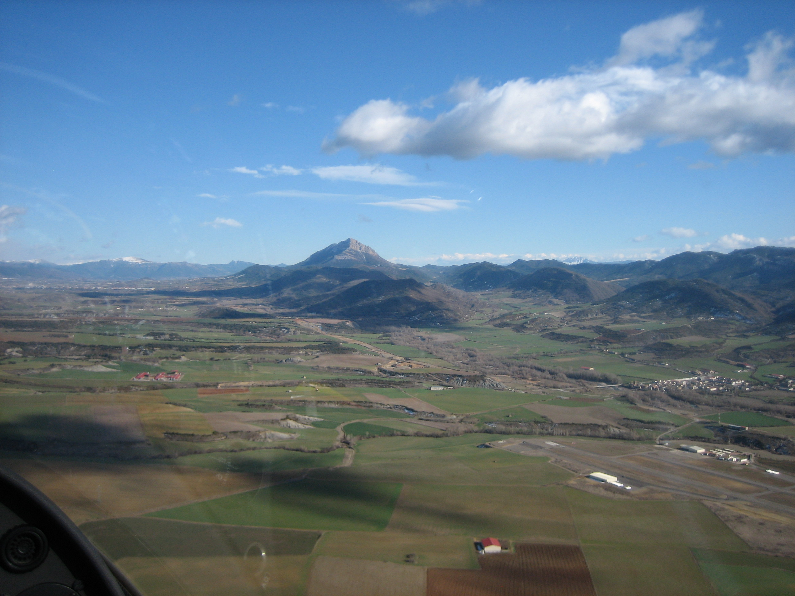 Rio Aragon valley to east, Peña Oroel in background middle, Santa Cilia and airport in the right and Jaca in the background left